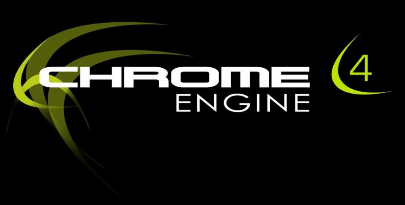 This logo shows the picture of the fourth version of the Chrome Engine from polish video game developer Techland.